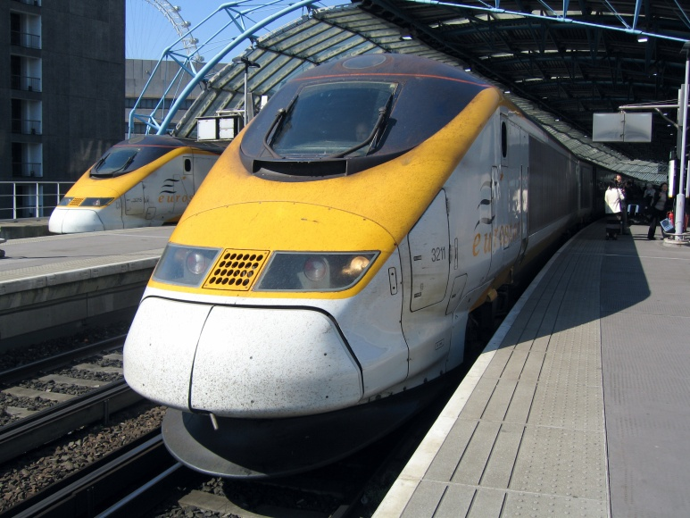 A Eurostar.